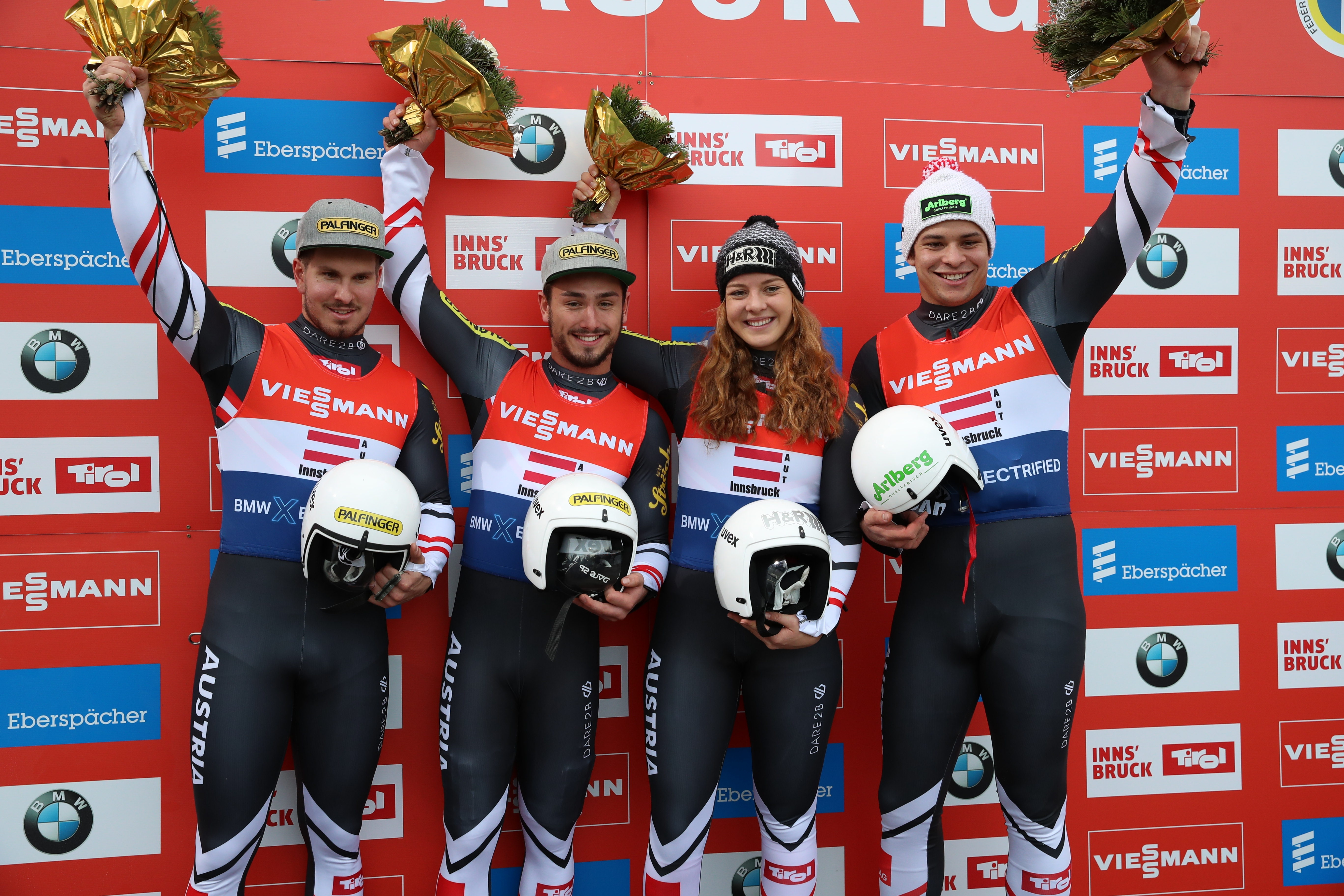 Team Relay World Cup race at the 2019/20 Luge World Cup in Innsbruck-Igls